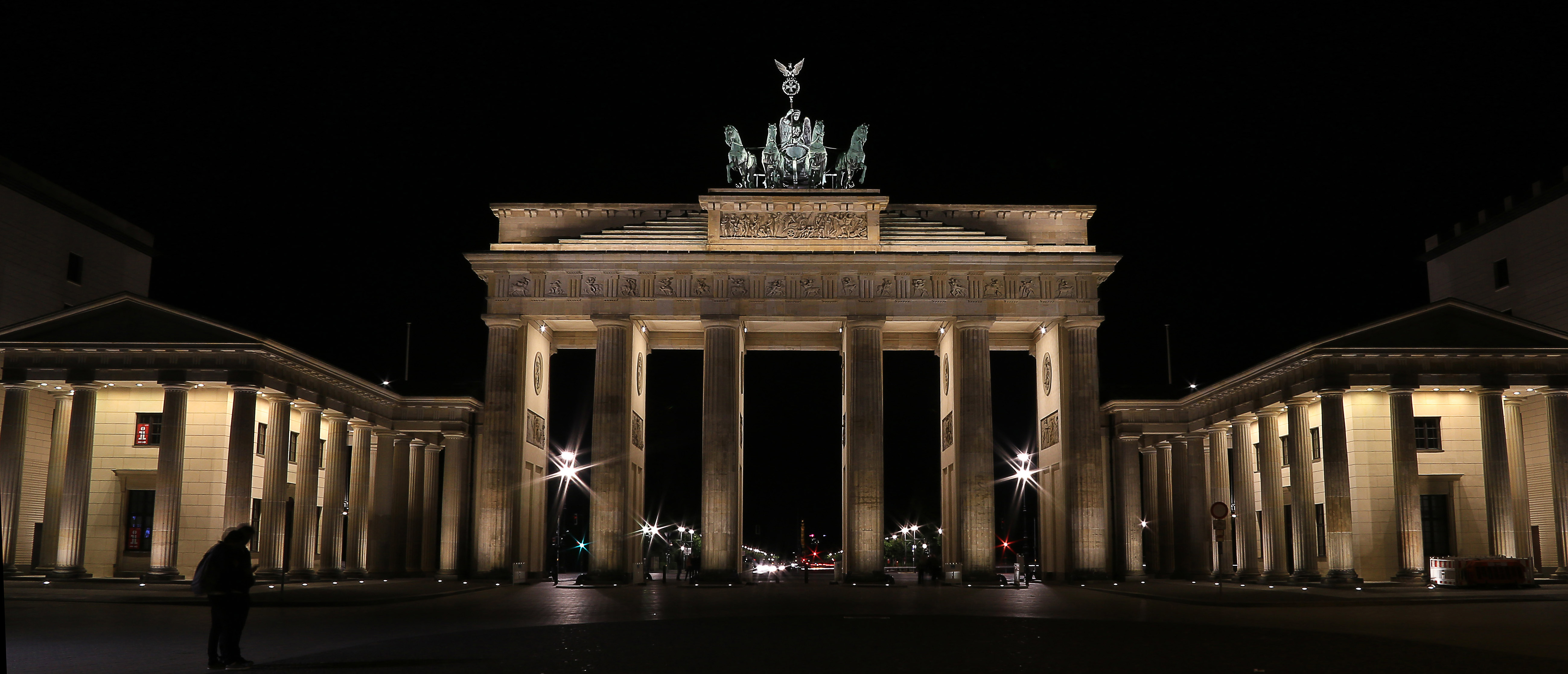 The Brandenburg Tor (Gate) at midnight in Spring